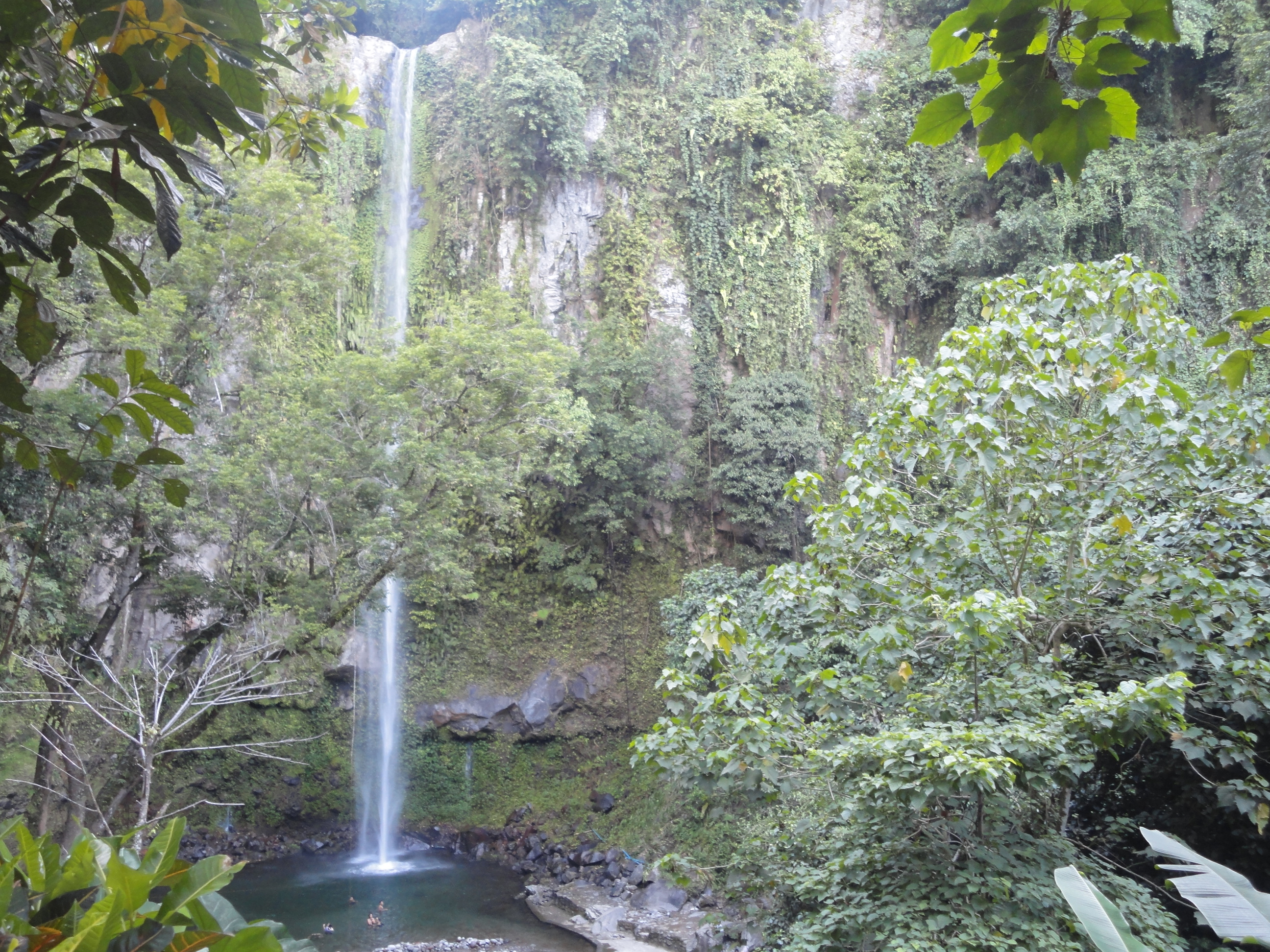 This photo was taken in the Katibawasan Falls, Camiguin mid August 2012. The water was colder that the air if you ever go out of the water.Tagalog: Kinunan ang litratong ito sa Katibawasan Falls, Camiguin bandang gitna ng Agosto 2013. Ang tubig ay mas malamig pa kesa umahon ka ng basa mula dito.